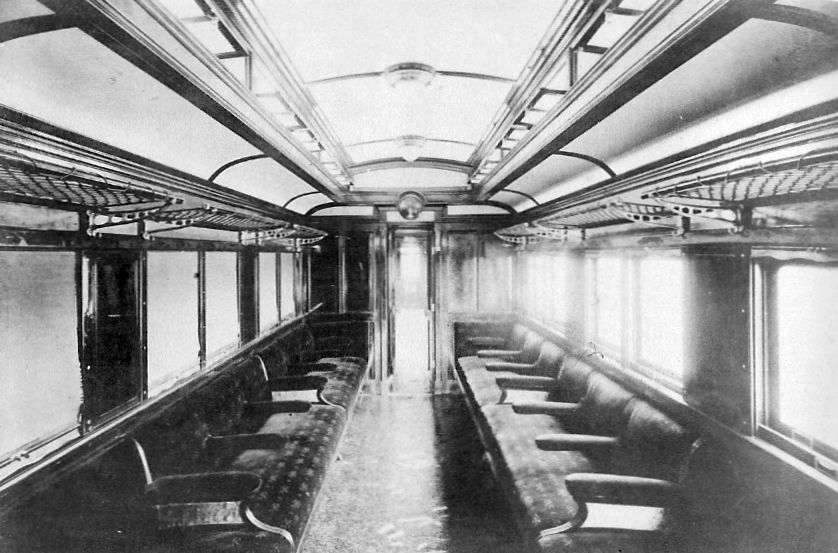 Inside of Japanese 1st Class Passenger Car of JGR